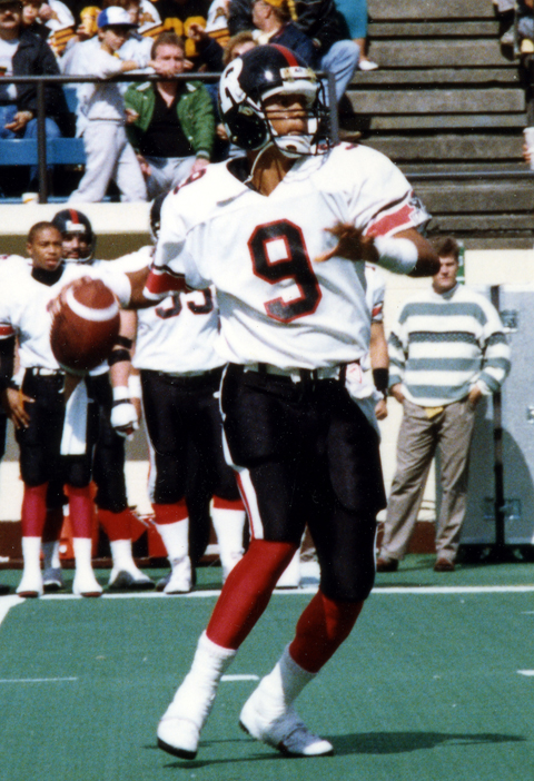 Damon Allen during his year with Ottawa Rough Riders at Ivor Wynne Stadium, Hamilton, Ontario.